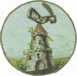 Coat of Arms of Astryna (1792)